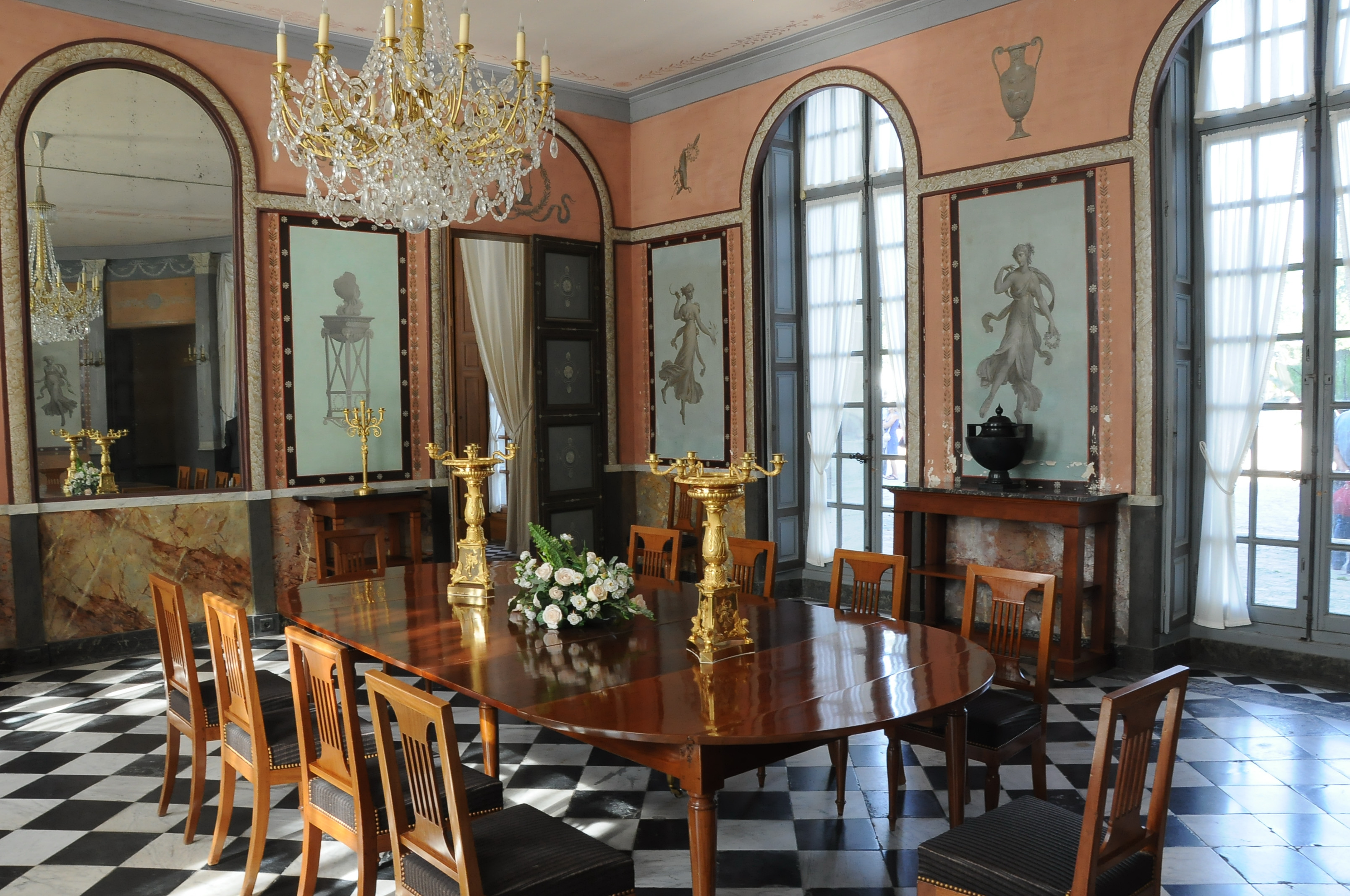 Dining room of the Château de Malmaison in Rueil-Malmaison, France. Mentioned since 1703 but the new furnishing was ordered by empress Joséphine to Charles Percier and Pierre-François-Léonard Fontaine who are going to enlarge the room by adding the semicircular part, the floor covered with a luxurious black and white marble.